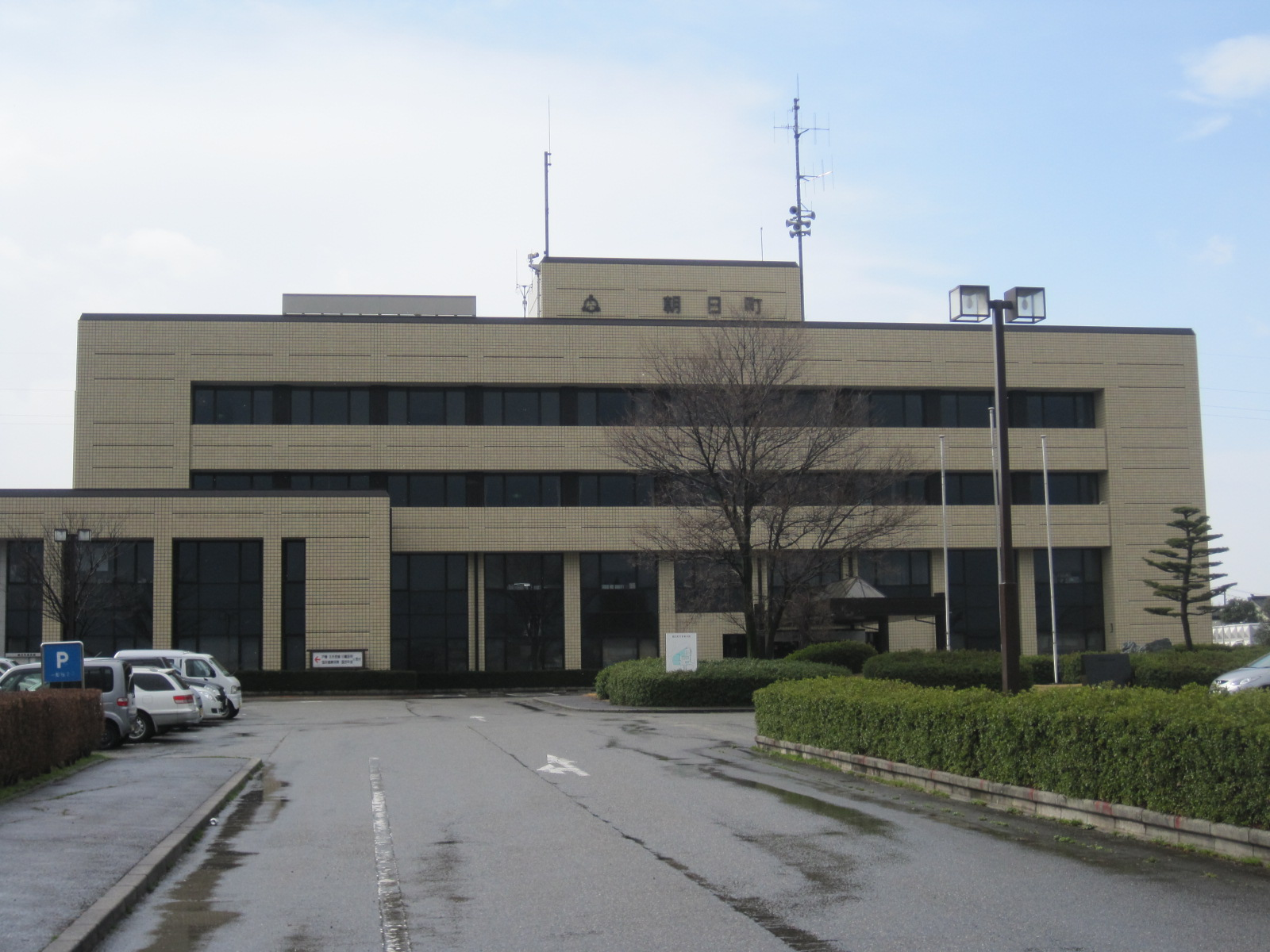 Asahi Town Office (Asahi town, Toyama prefecture)